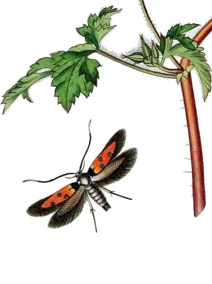 An illustration from British Entomology by John Curtis. Lepidoptera: Glyphipteryx linneella (Linaeus’s Spangle-wing, Cosmet).